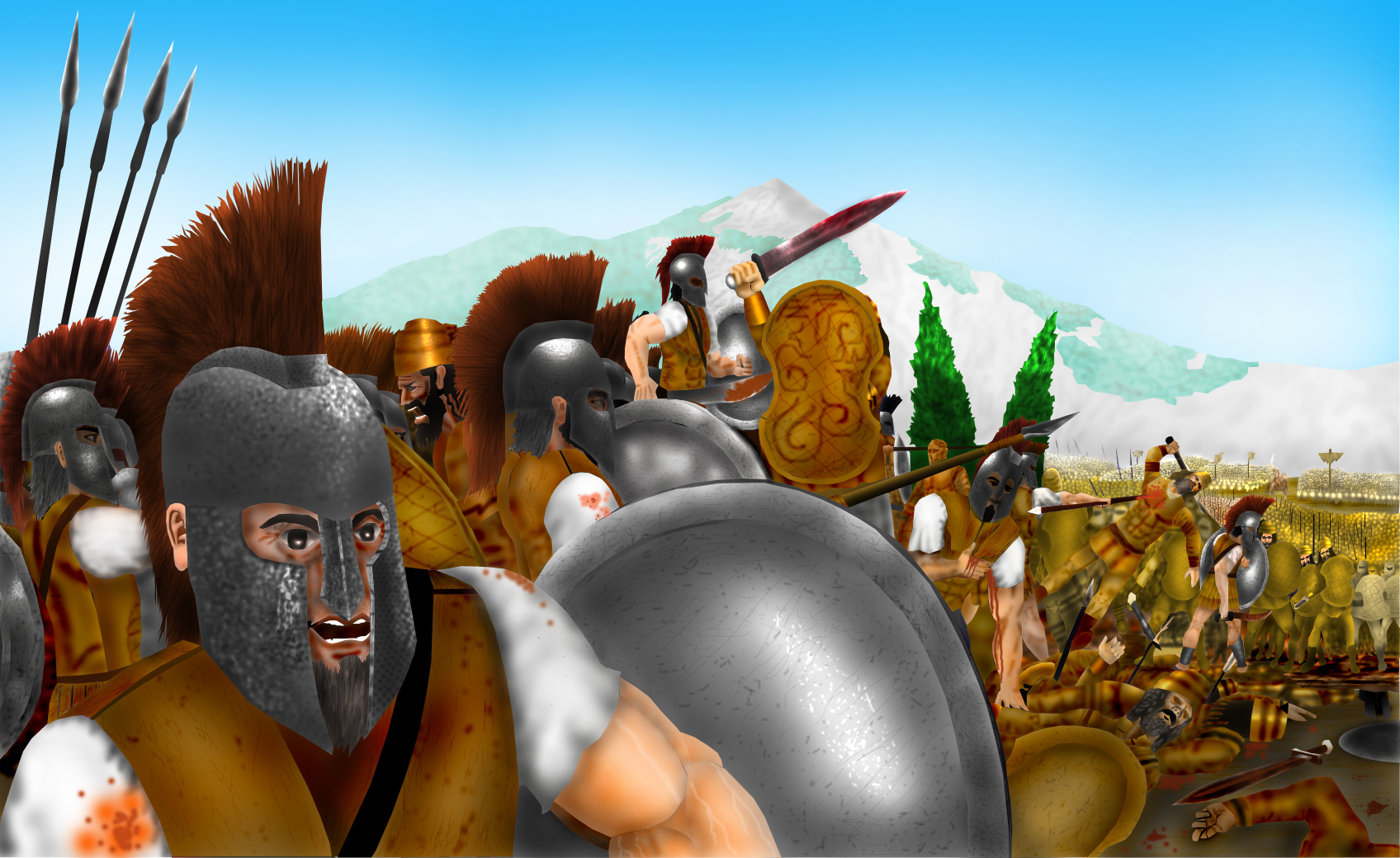 Artistic image of the battle of Marathon, handmade and colored in photoshop